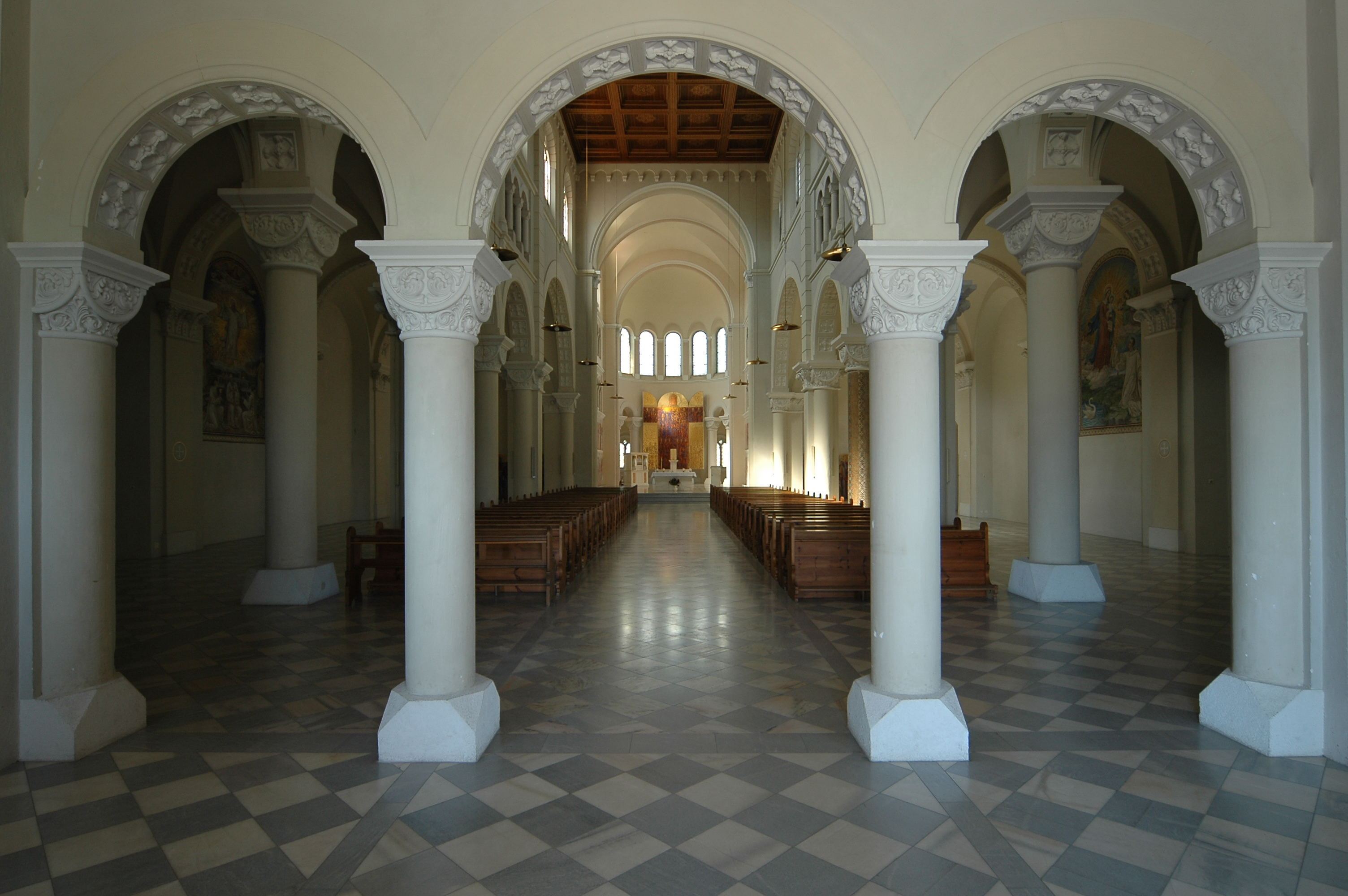 Interior of the castle church in Tanzenberg, municipality Sankt Veit an der Glan, district Sankt Veit an der Glan, Carinthia, Austria, EU